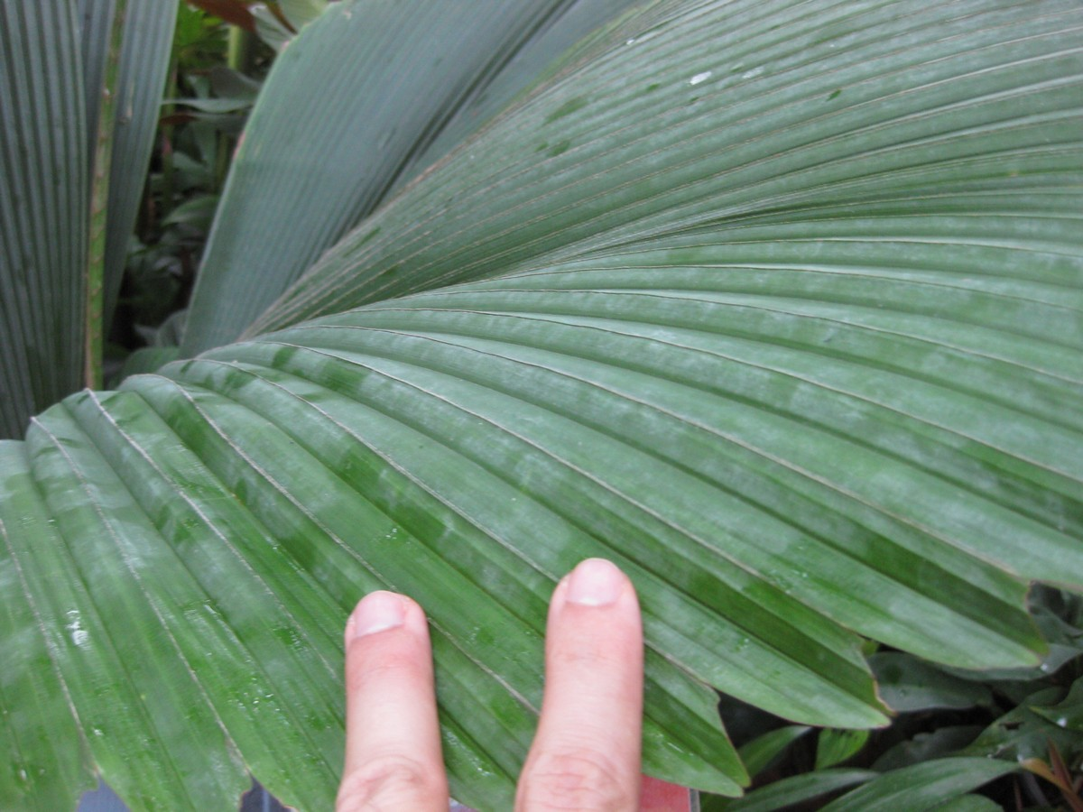 Photographed at the Queen Sirikit Botanic Garden (Chiang Mai Province, Thailand) in March